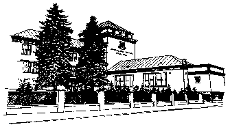 Sketch of Bilingual English-Slovak Grammar School